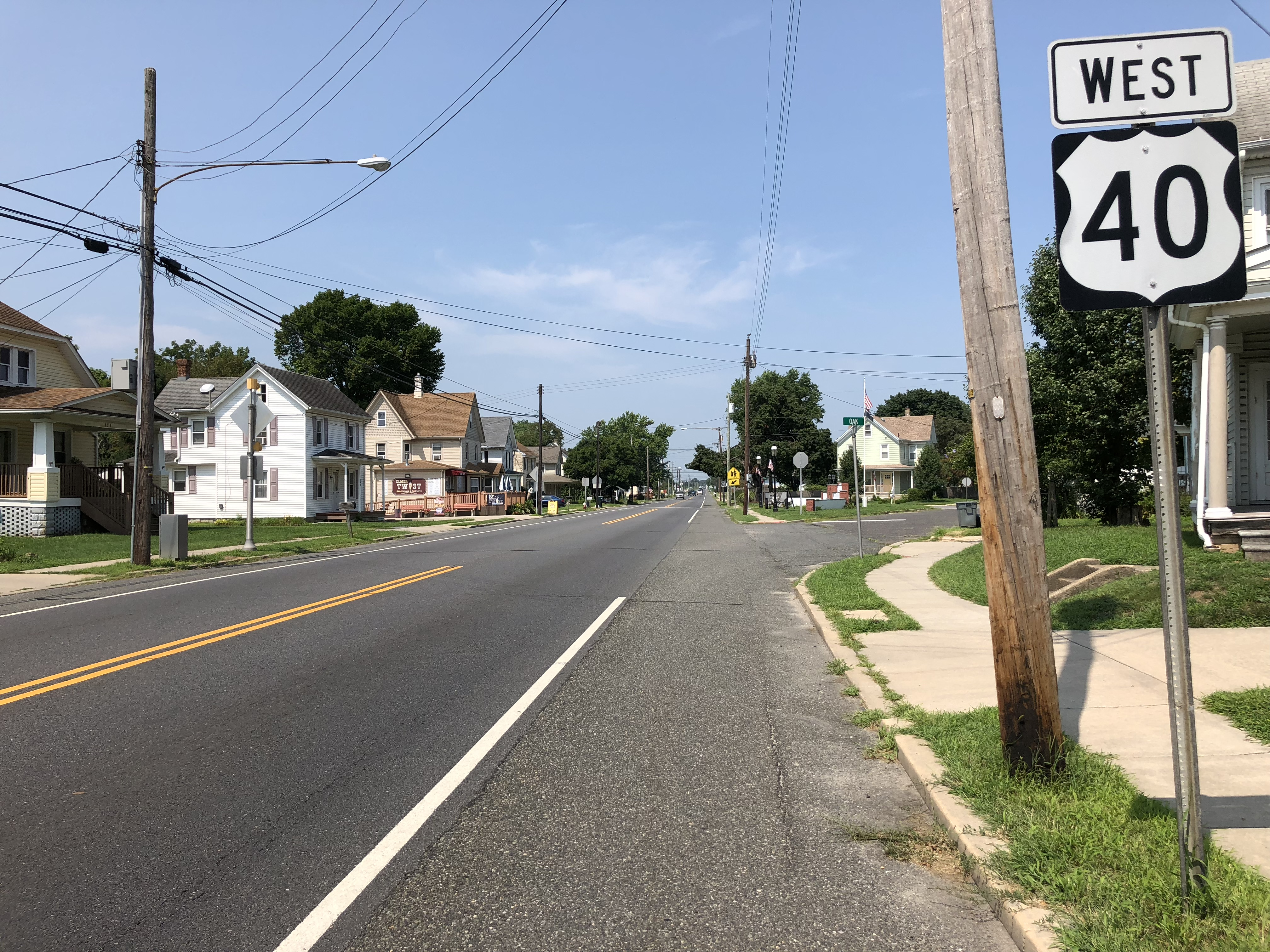 View west along U.S. Route 40 (Chestnut Street) just east of Oak Street in Elmer, Salem County, New Jersey